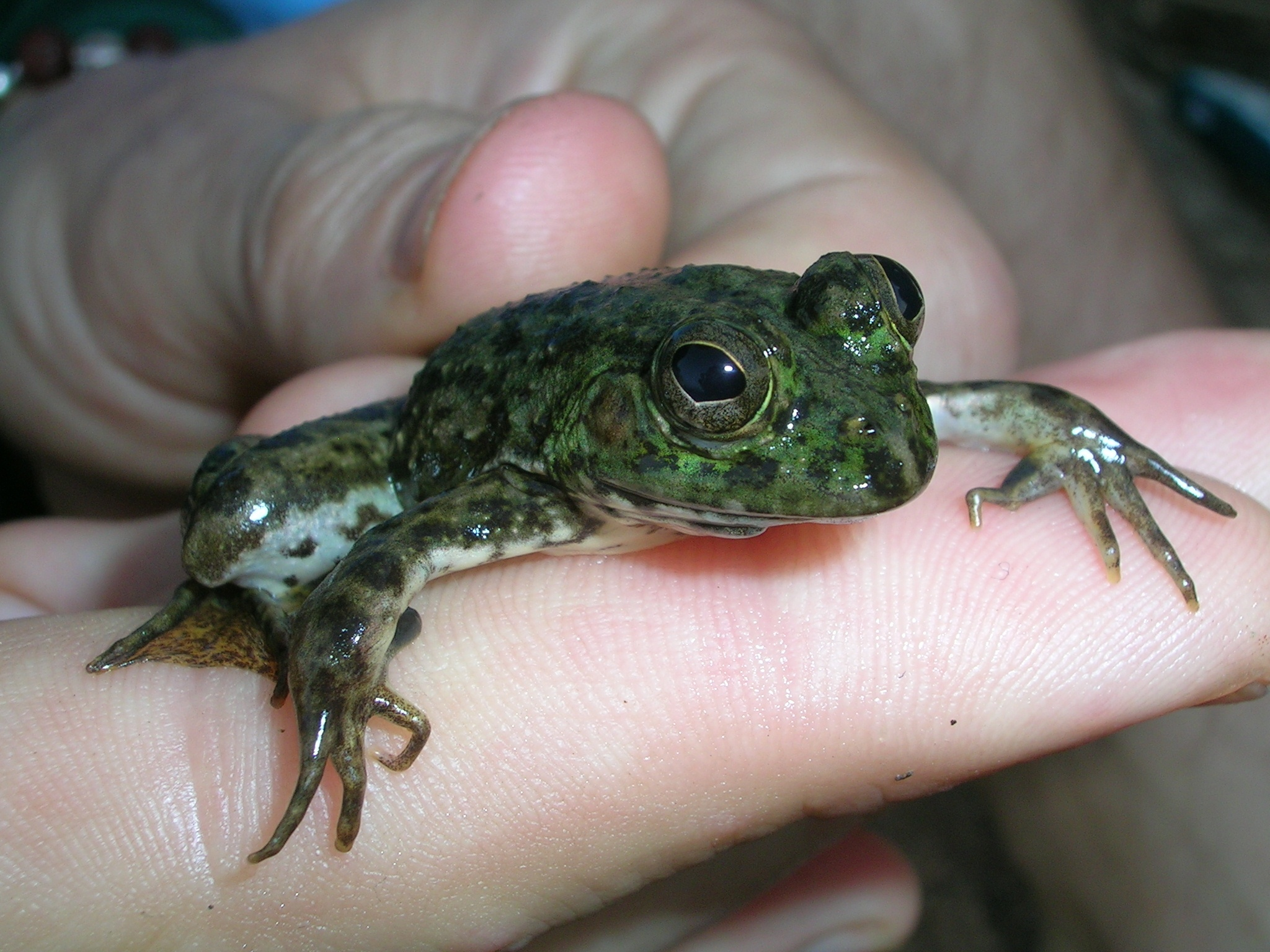 Euphlyctis cyanophlyctis from Thiruvannamalai, Tamil Nadu, India